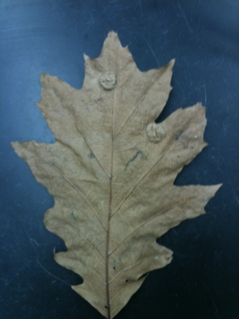 oak leaf blister